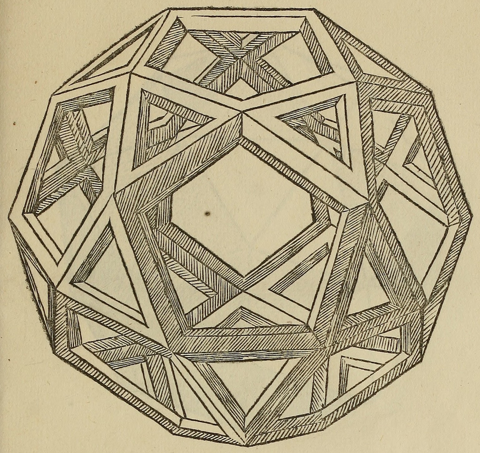 Illustrations by Leonardo da Vinci, from Luca Pacioli's "De divina proportione", 1509 edition.